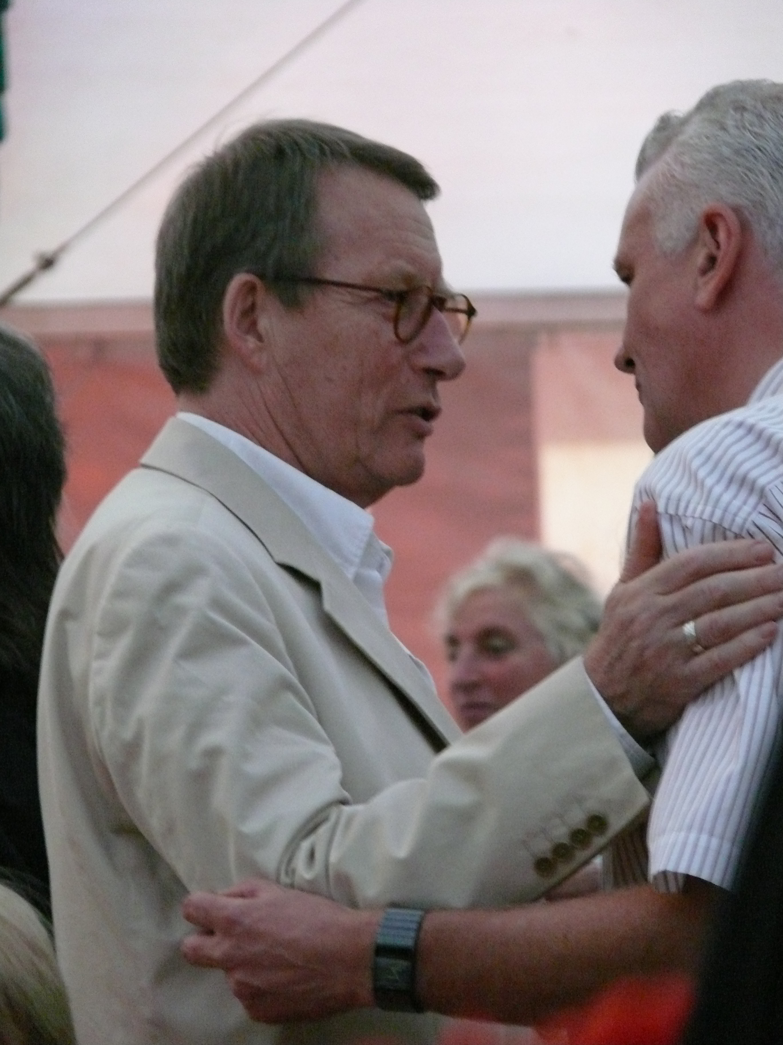 Friedrich Christian Delius, 2009